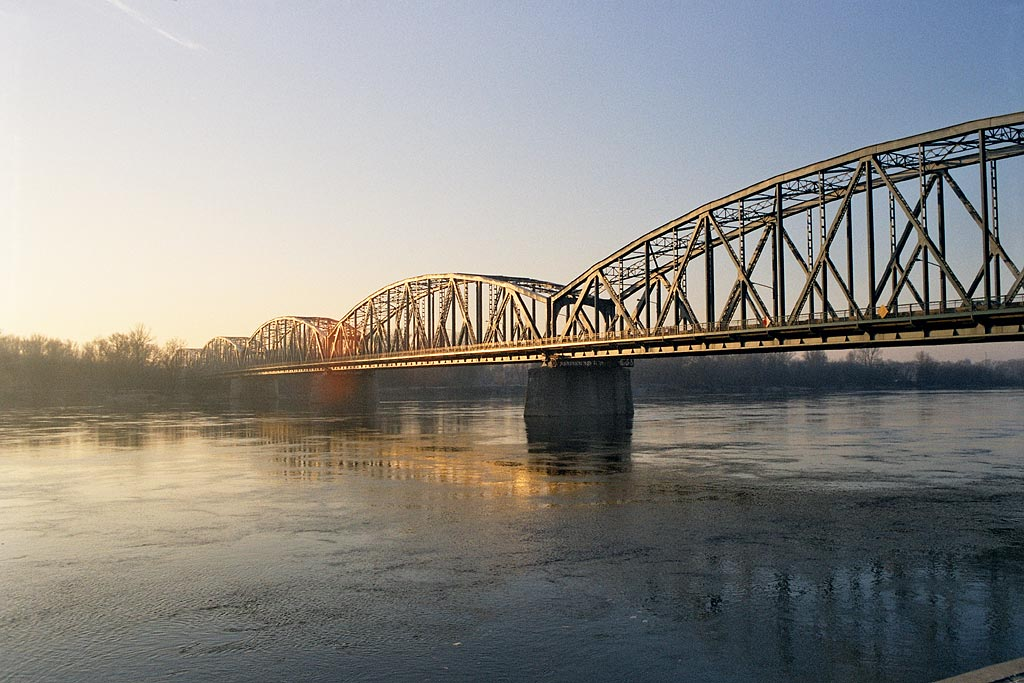 Toruń, road bridge on Vistula